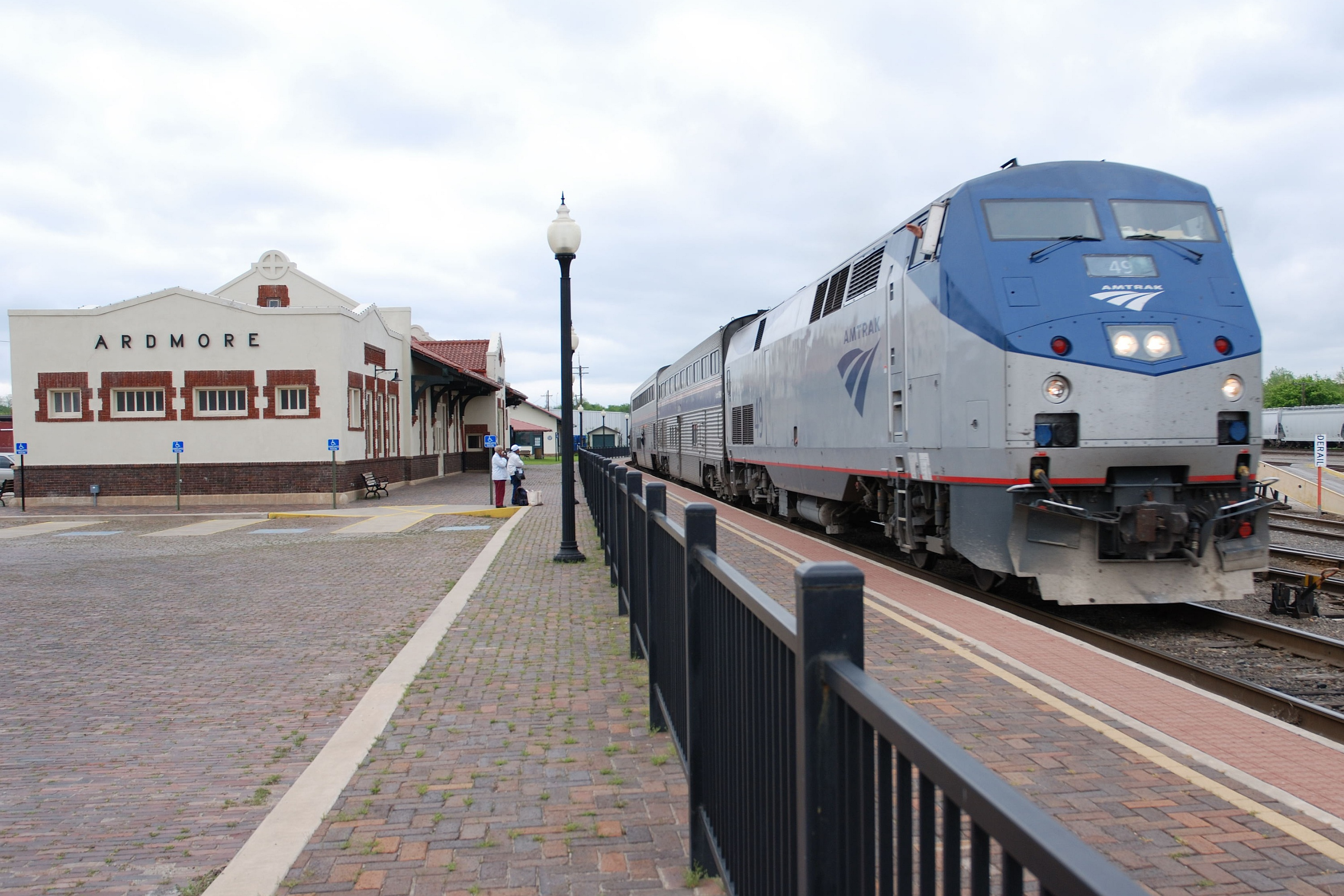 The southbound Heartland Flyer at Ardmore in April 2007